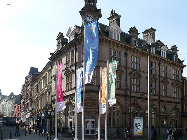 HSBC bank, Newport. Situated in Westgate Square at the junction of Stow Hill (at the left) 784808 and Bridge Street. The banners are advertising Newport Festival 2010. It is advertised that it "will be a celebration of everything positive about Newport. It will bring together communities and get people feeling good about Newport".